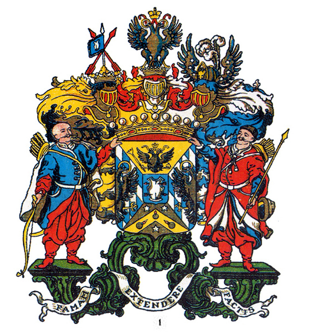 Coat of arms of Alexey Razumovsky showing Ukrainian cossacks.